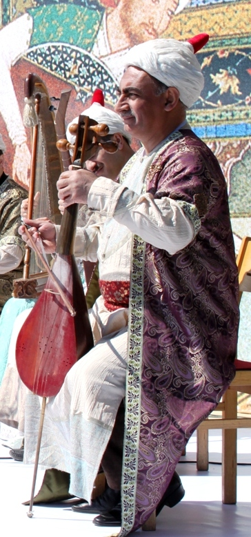 Traditional azeri music. Azerbaijani player in chaganeh